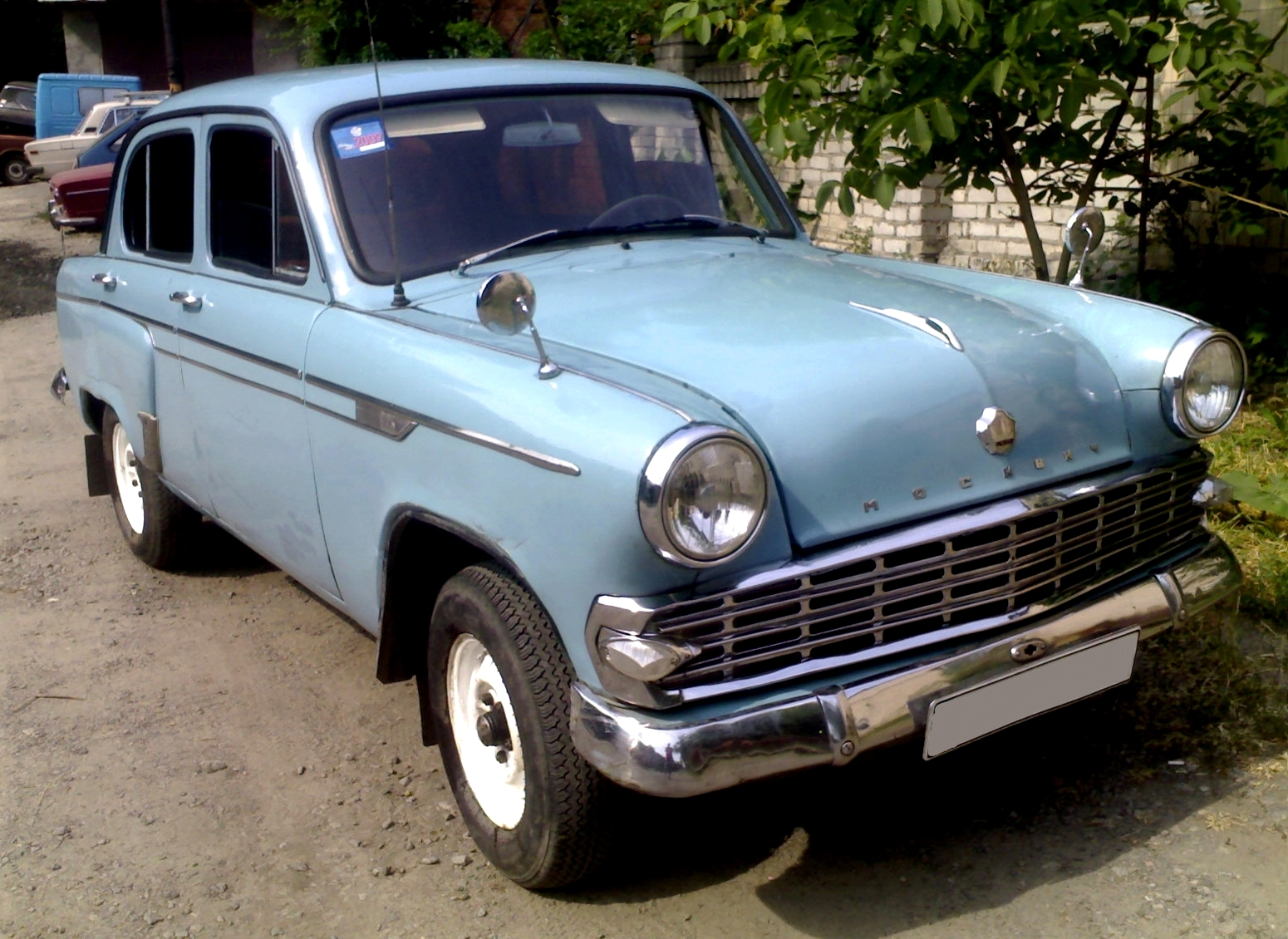 I've made a photo of my car, a Moskvitch 403E.